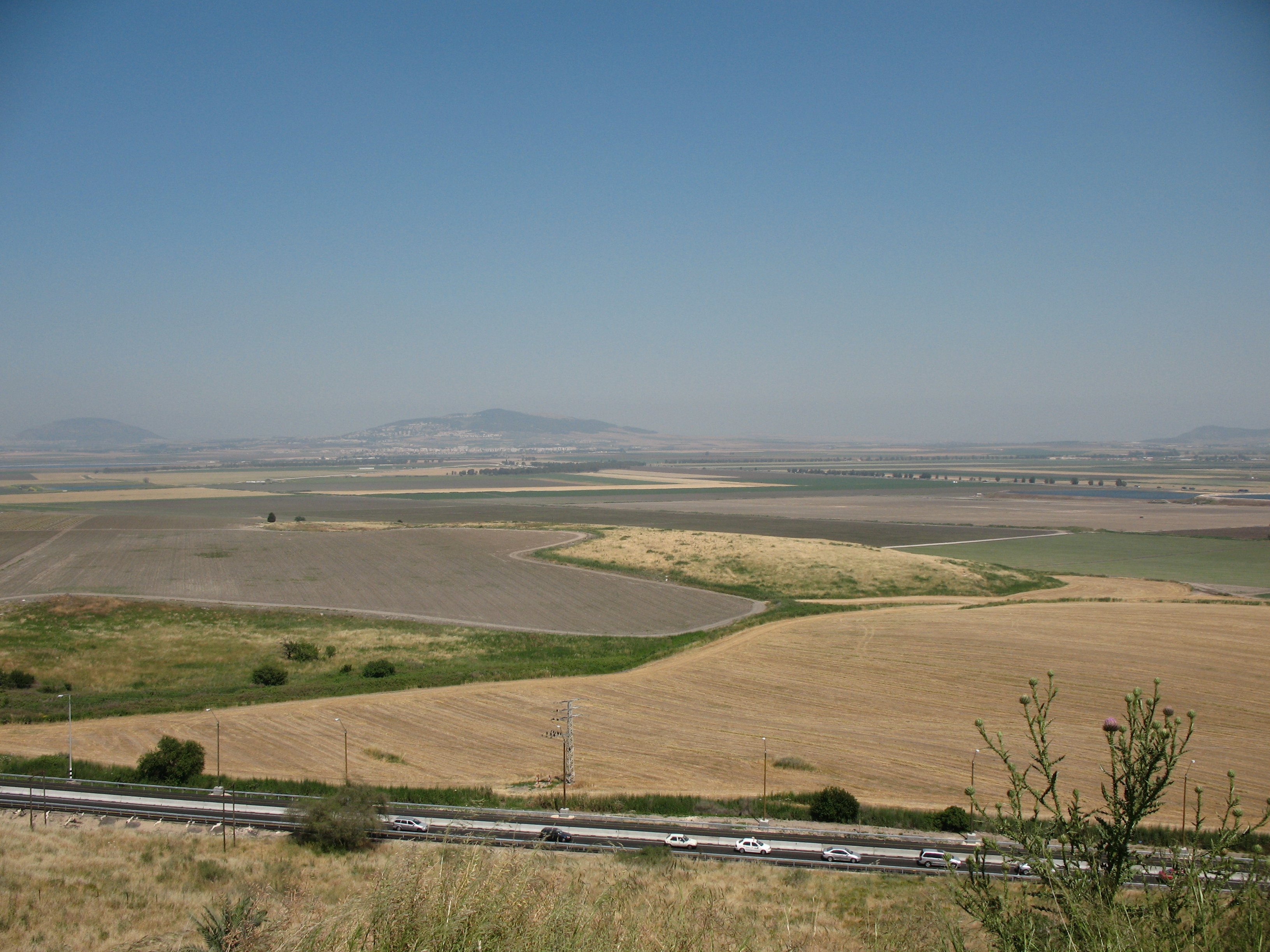 Road that is running along the old Via Maris